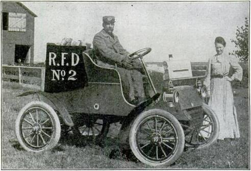 Early Rural Free Delivery vehicle circa Sept. 1905